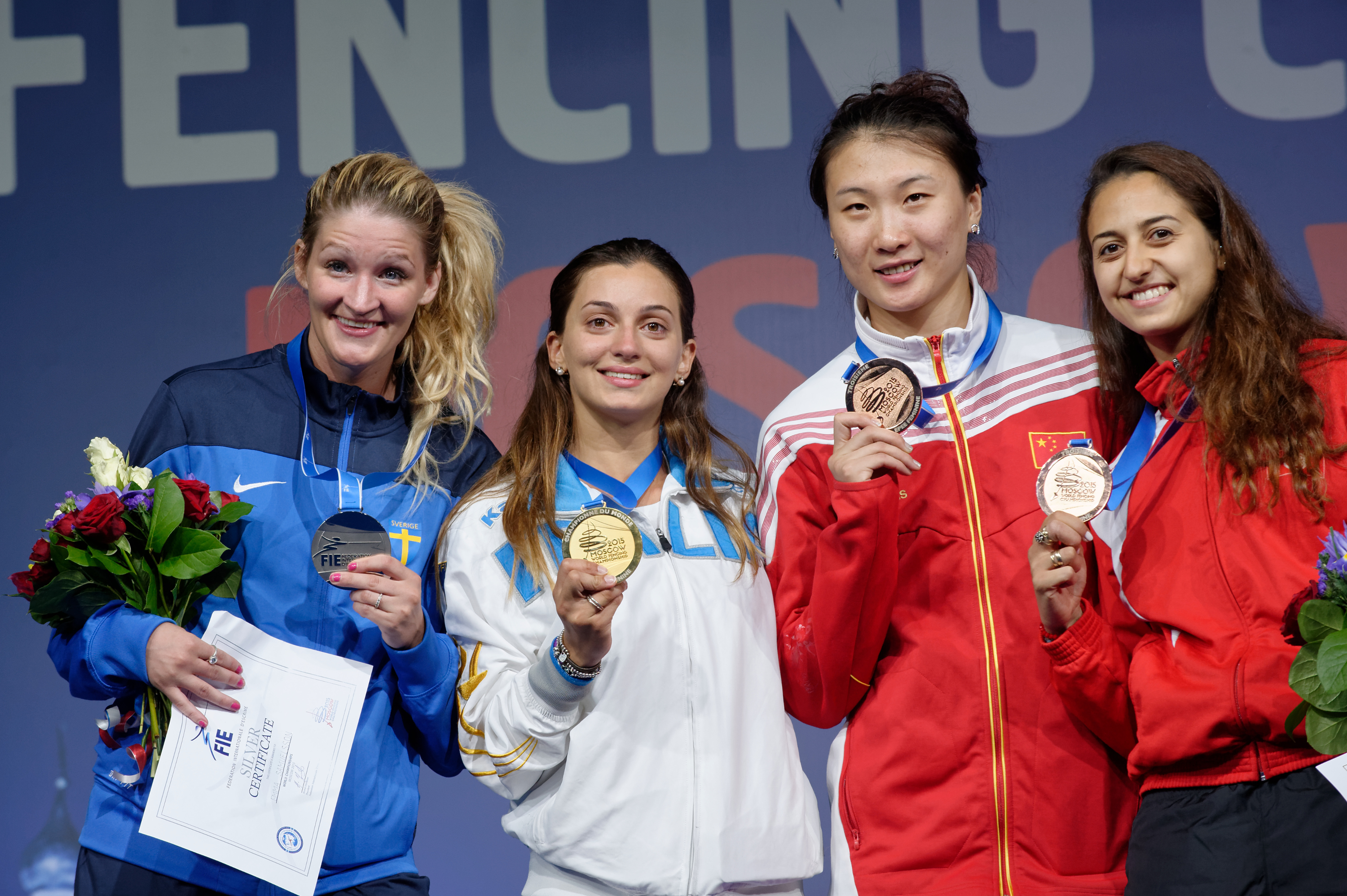 Podium of the women's épée event (from left to right, Emma Samuelsson, Rossella Fiamingo, Xu Anqi and Sarra Besbès) at the 2015 World Fencing Championships on 15 July 2015 at the Olympic Stadium in Moscow.